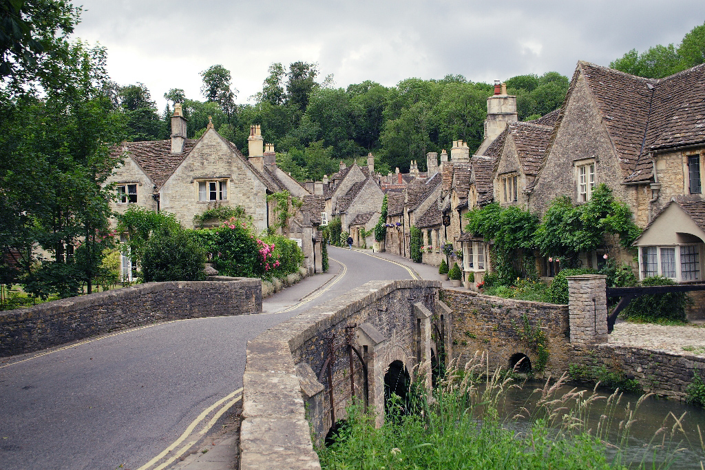 Looking up Water Street from the Brook - Castle Combe, England